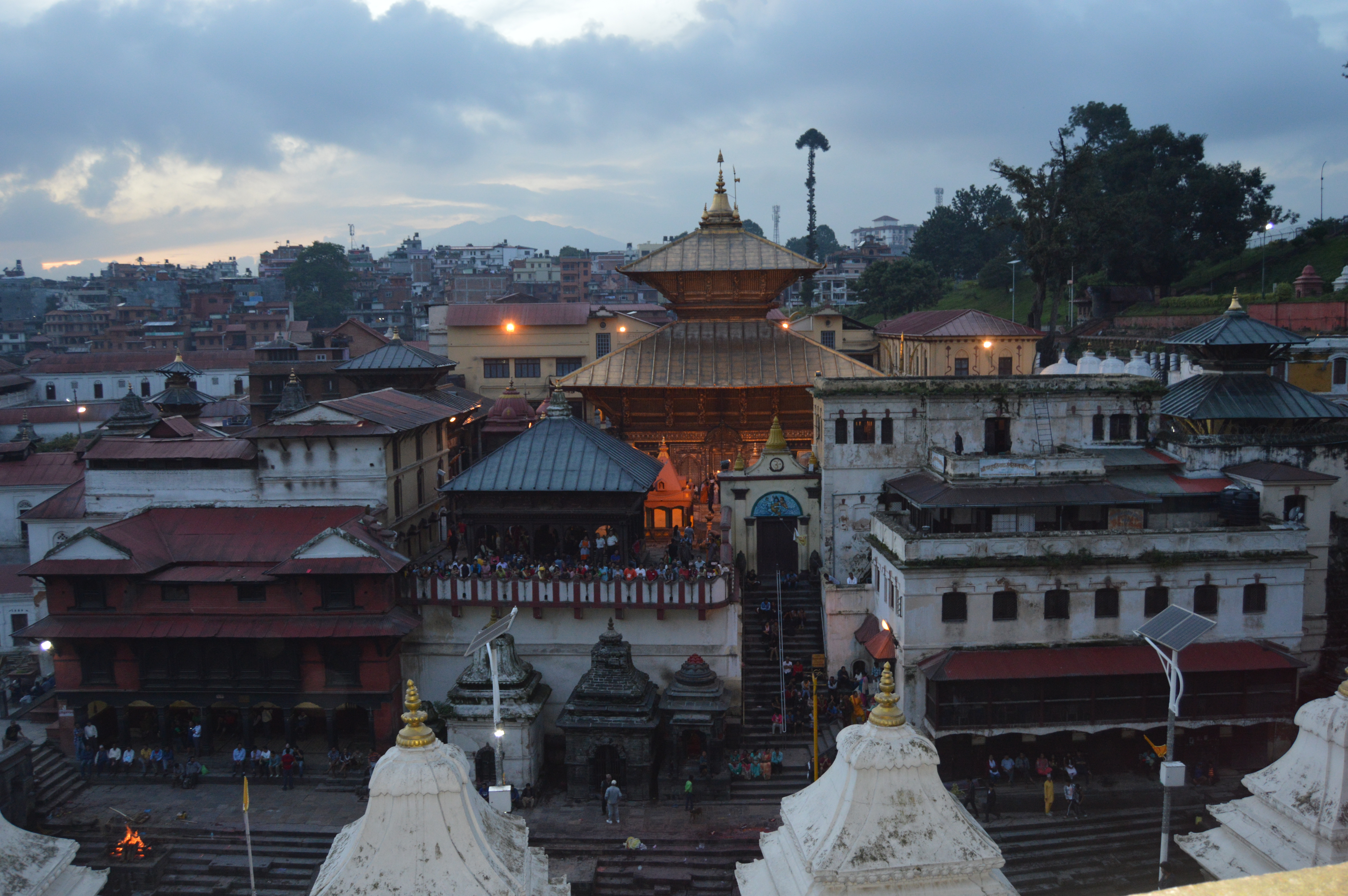 Pashupatinath Temple